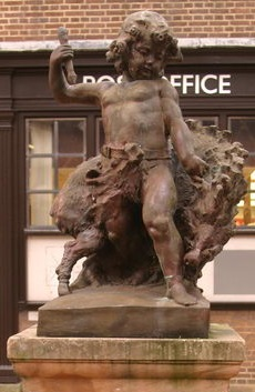 Dryad with boar - statue in High Street, Bromsgrove.